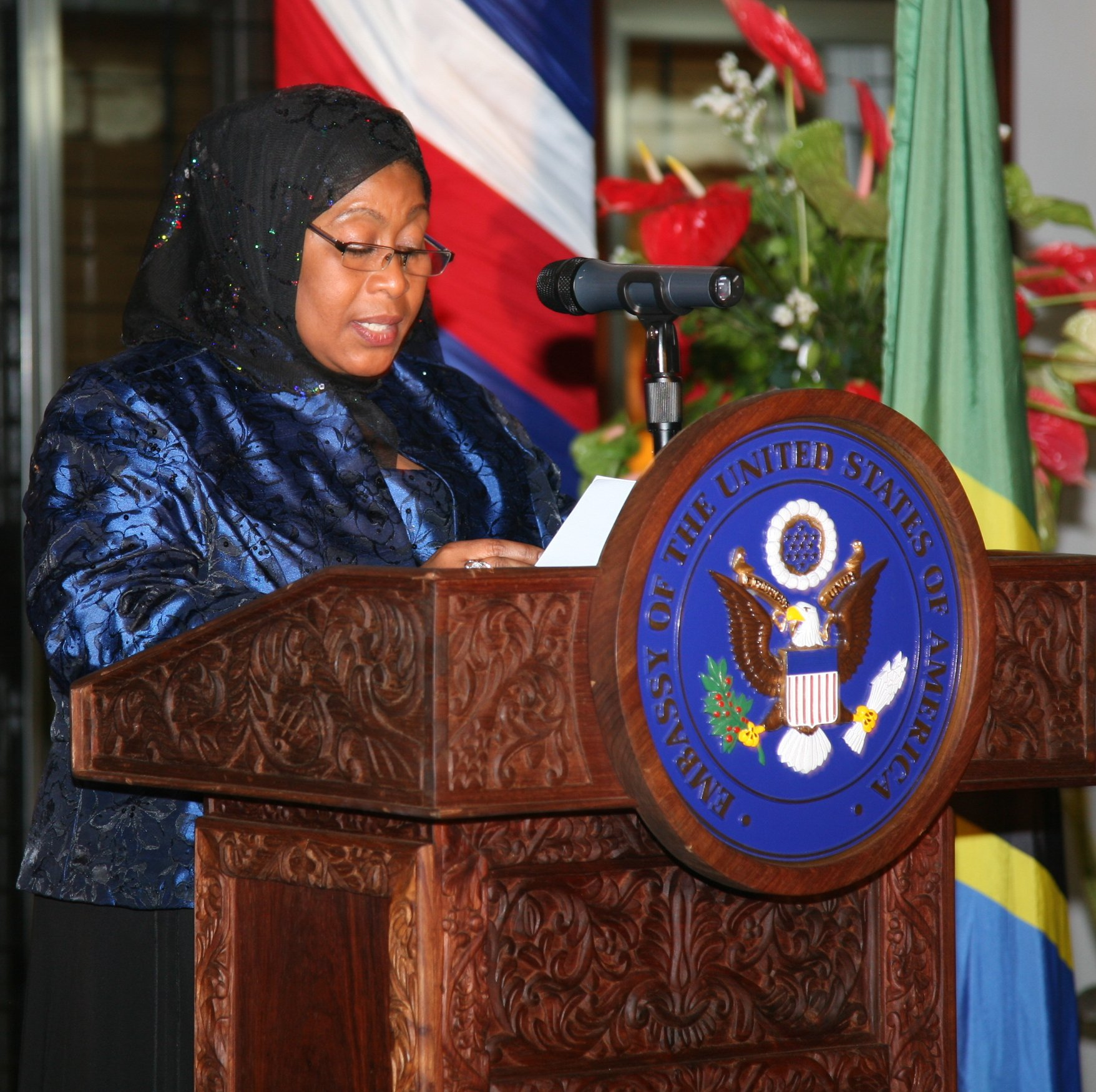 Samia Suluhu Hassan.